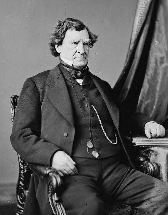 Former Secretary of State Jeremiah S. Black of Pennsylvania. Jeremiah S. Black, 25th United States Attorney General.